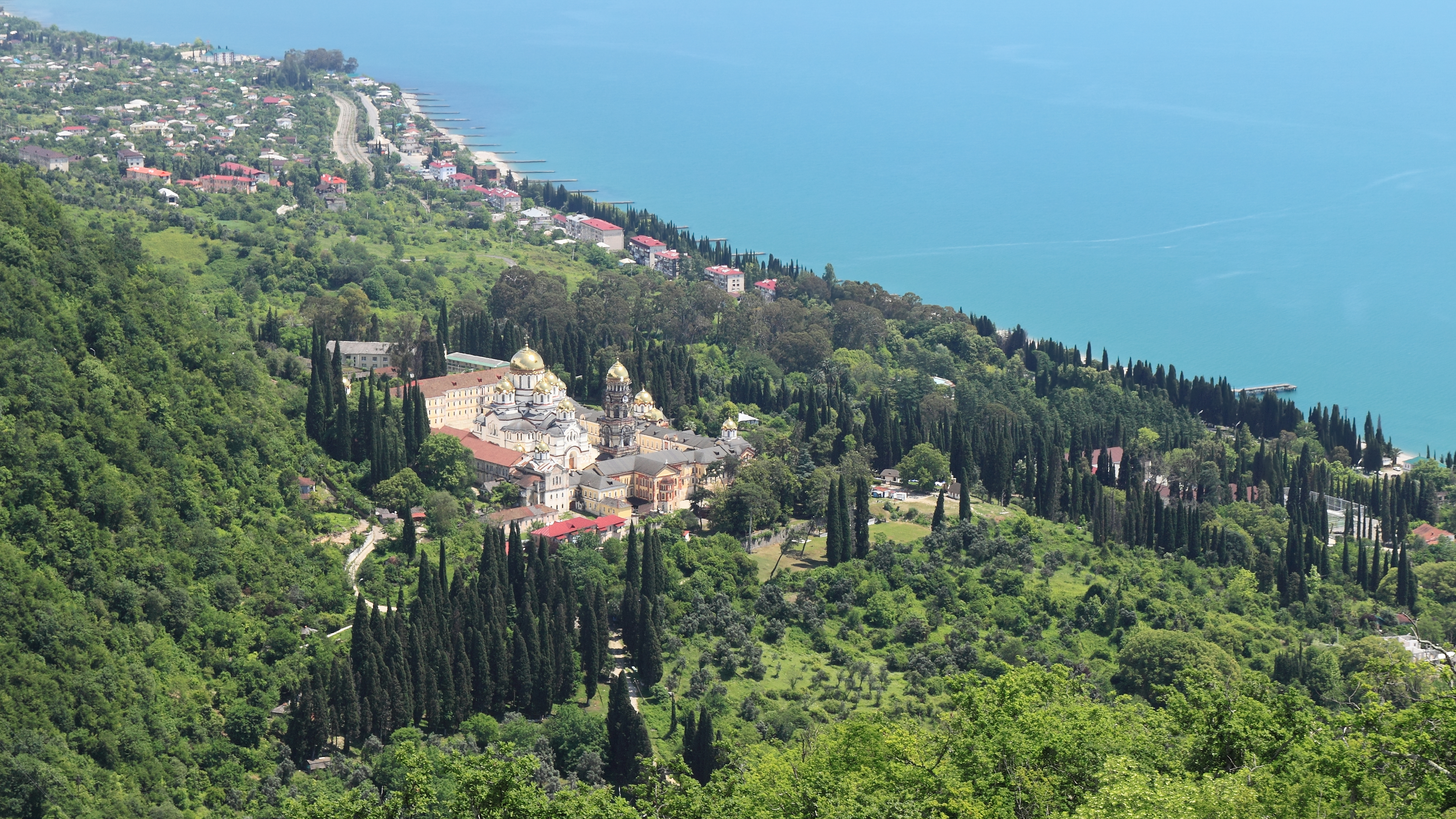 View from the Iverian Mountain to the city and New Athos Monastery. New Athos, Gudauta District, Abkhazia.